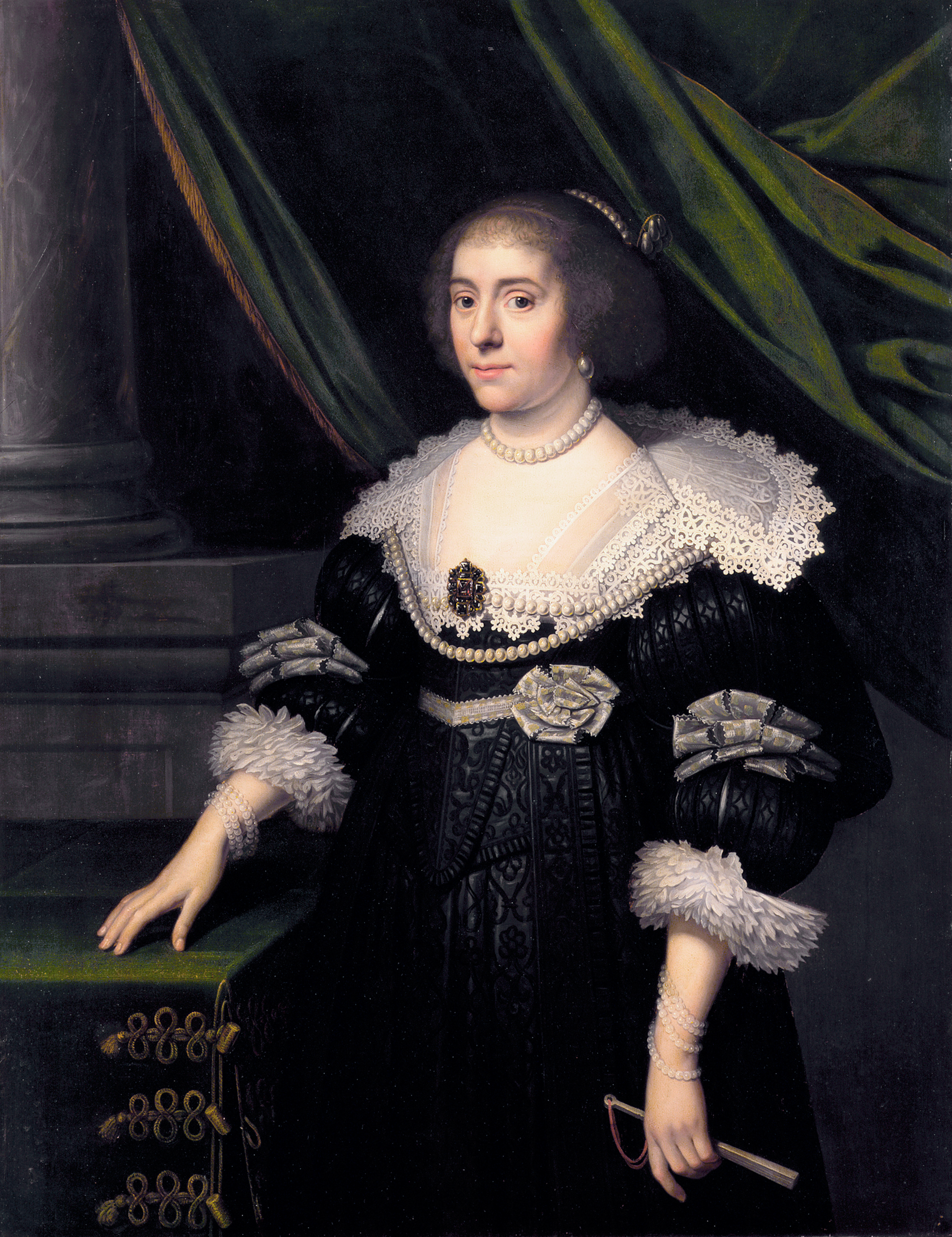 Created after Frederik Henry's accession.